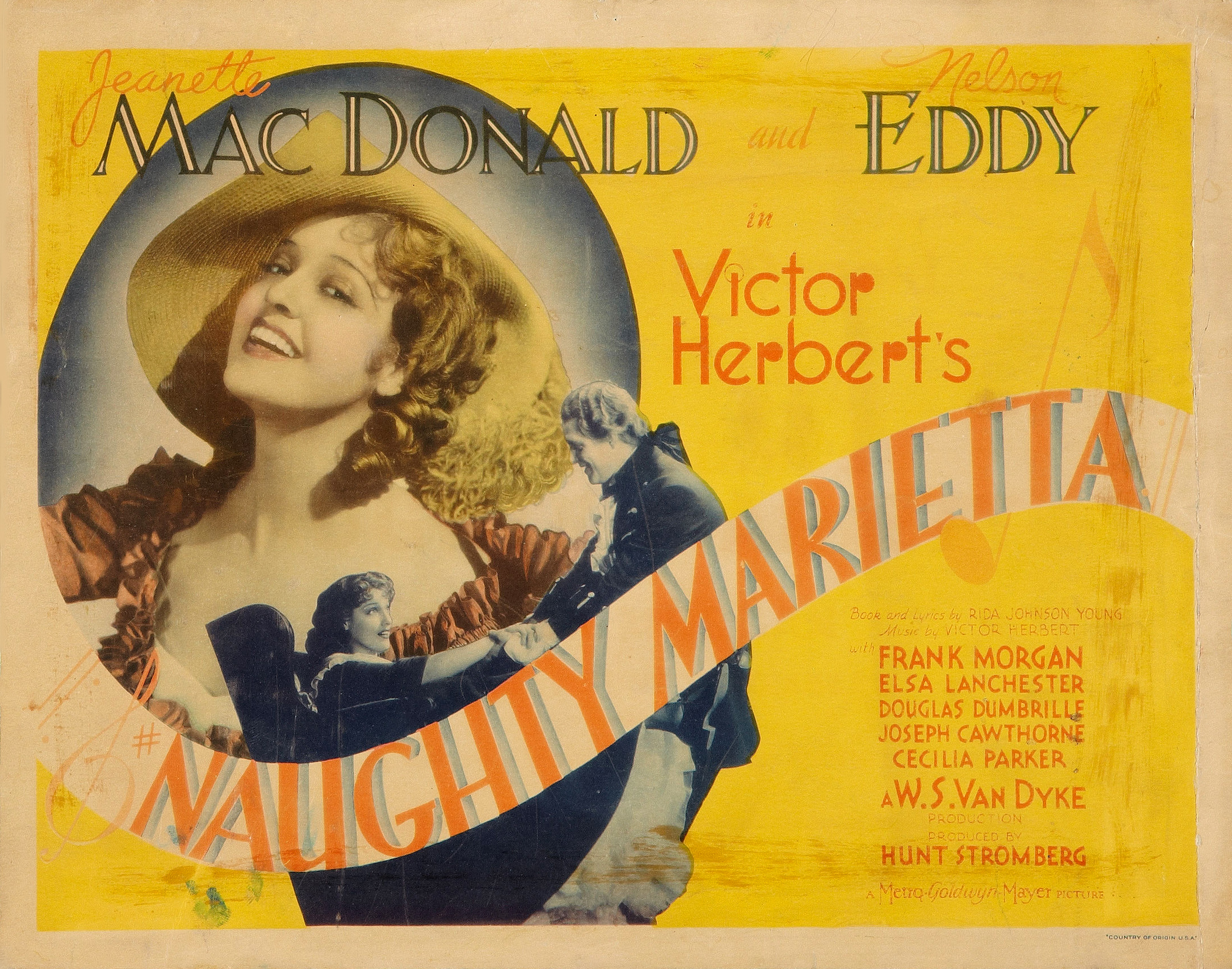 Lobby card for the 1935 MGM film Naughty Marietta